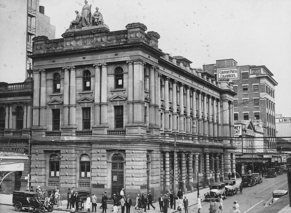 Creator: Unidentified. Location: Brisbane CBD, Queensland. Description: View of the old A.M.P. building prior to its demolition. Note the removal notices on the building. (Description supplied with photograph.) Read more about Hall & Dods impact on Queensland architecture on our blog: Watch how SLQ conservators restored the Hall & Dods architecture plans on our Vimeo channel: Learn more about this image at the State Library of Queensland: Information about State Library of Queensland’s collection: You are free to use this image without permission. Please attribute State Library of Queensland.